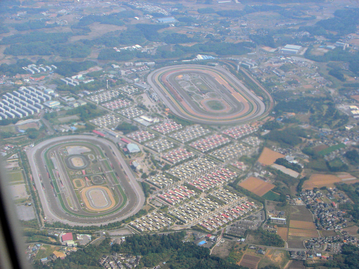 Race tracks at the Miho Training Center in Miho Village, Ibaraki Prefecture, Japan